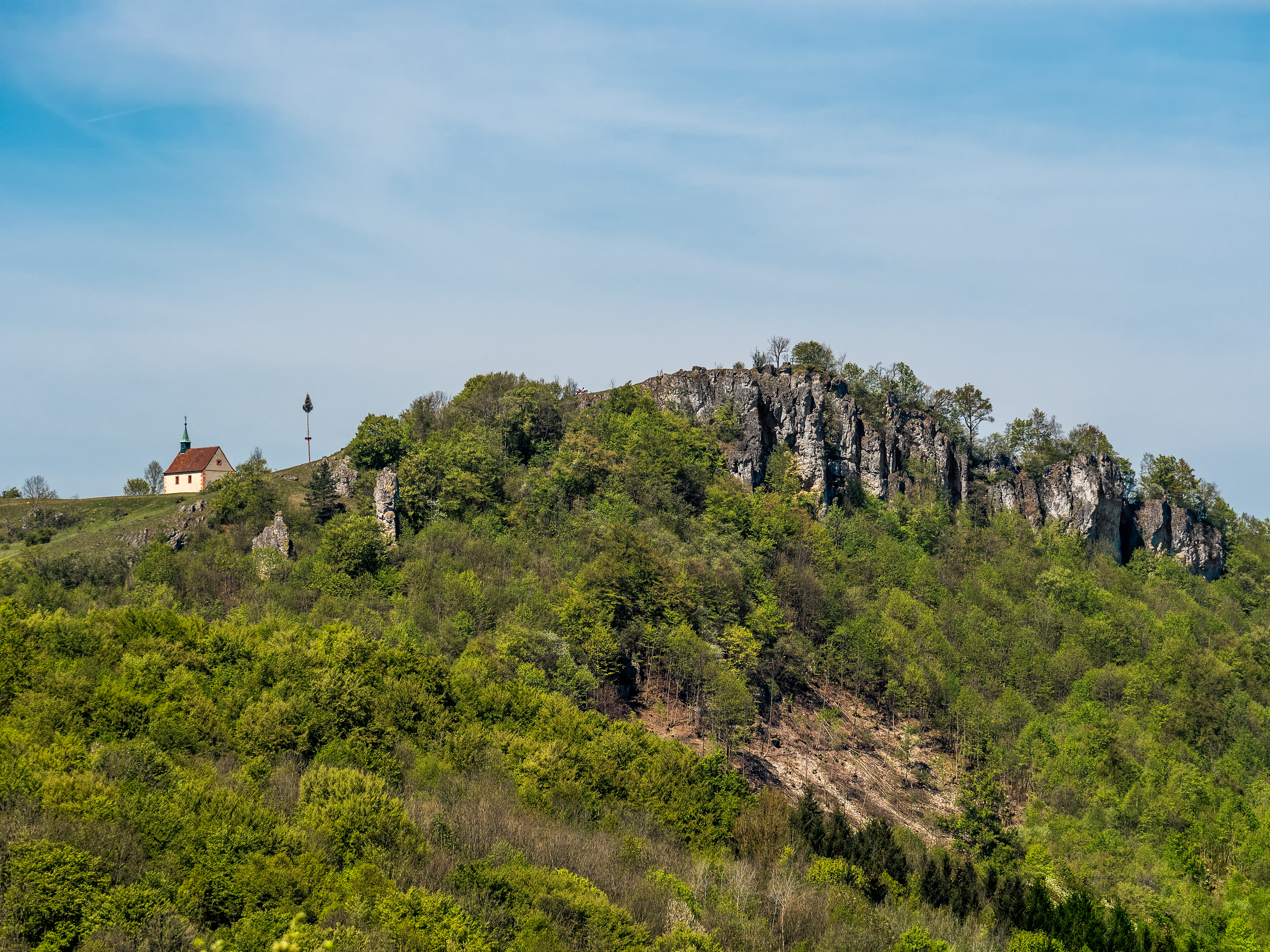 Ehrenbürg near Forchheim in the LSG "Franconian Switzerland - Veldenstein Forest"